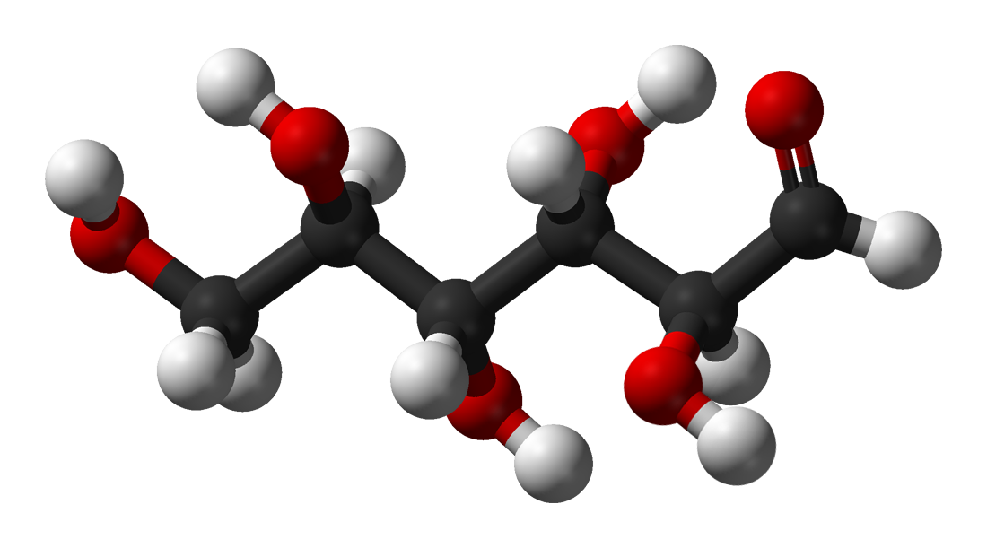 Ball-and-stick model of the mannose molecule, a six-carbon sugar, closely related to glucose, shown here in its chain form.